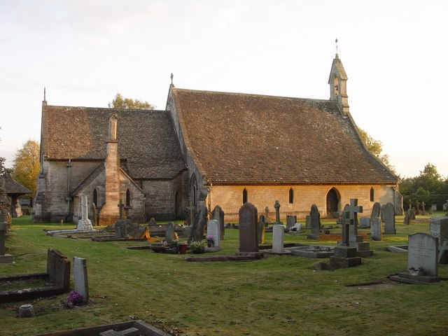 St Saviour's, New Church Street, Tetbury, near to Tetbury, Gloucestershire, Great Britain. (from the north side). St Saviours, New Church street, Tetbury, was built in 1848 and designed by Samuel Whitfield Daukes (1811-1880), who also designed the Royal Agricultural College, Cirencester. The church is now redundant.